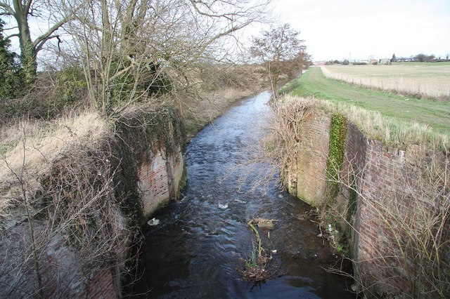 Ticklepenny Lock. Former lock on the disused Louth Canal, named after the Ticklepenny family who were smallholders and lock-keepers and lived in a house close by. Many of the family are buried in St.Margaret's churchyard 1199773 though the spelling on the headstones is slightly different